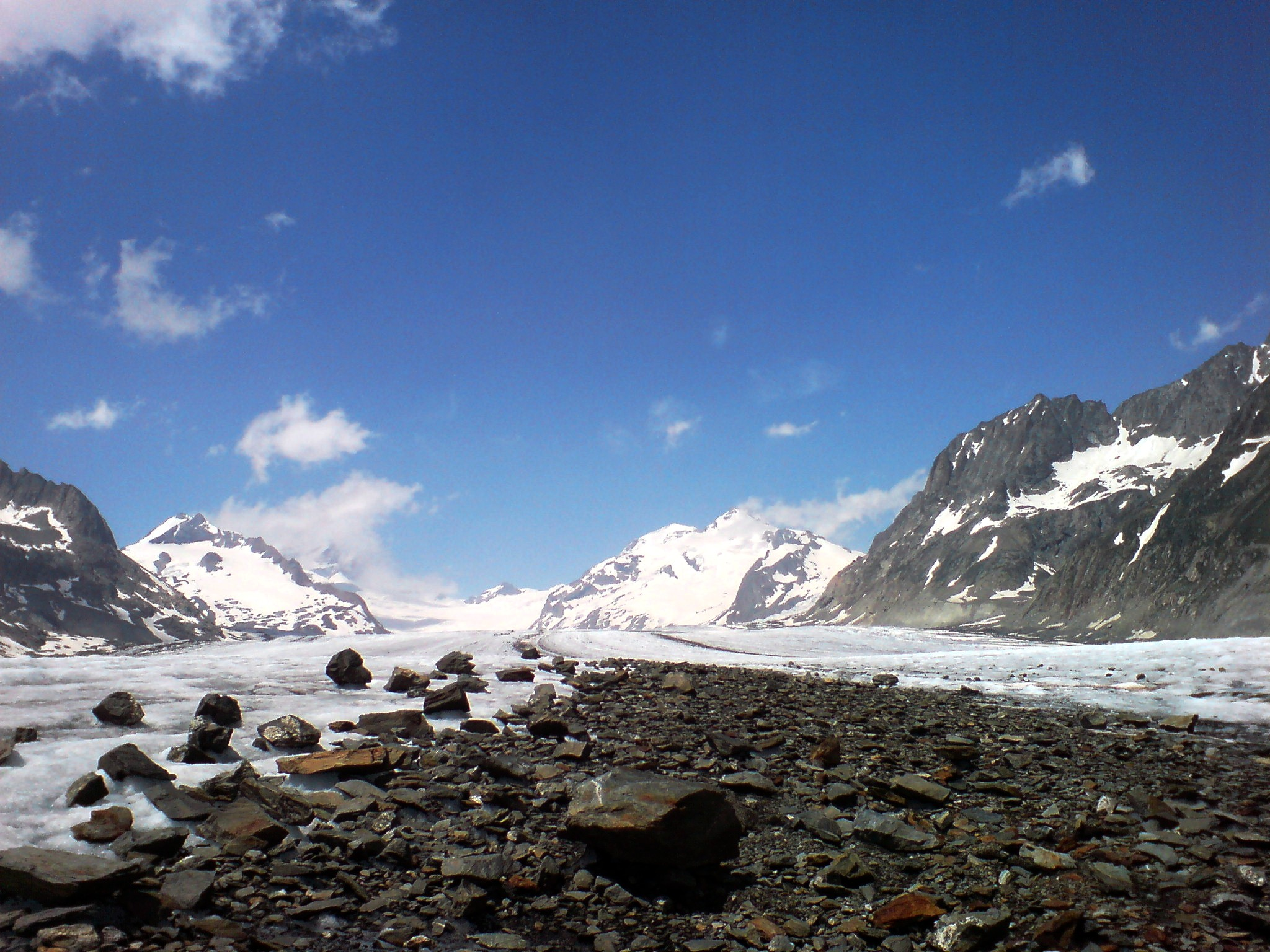 On the Aletsch Glacier (Kranzberg moraine), 2 km south of Konkordia, Bernese Alps